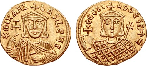 Michael II the Amorian, with Theophilus. 820-829. AV Nomisma (21mm, 4.38 g, 6h). Constantinople mint. Struck 821-829. Crowned and draped facing bust of Michael, wearing short beard, holding globus cruciger and cruciform scepter; star to left / Crowned facing bust of Theophilus, beardless, wearing loros, holding globus cruciger and cruciform scepter; +Є at end of legend. DOC 5a; Füeg 4.A.1; SB 1640. Good VF.